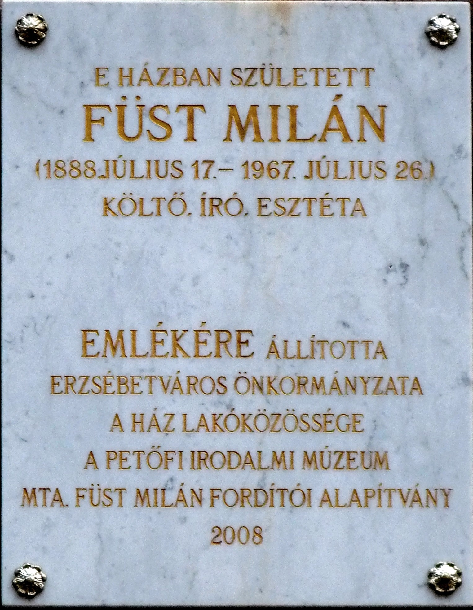 Milán Füst commemorative plaque in Budapest District VII, Hársfa Street No 6.